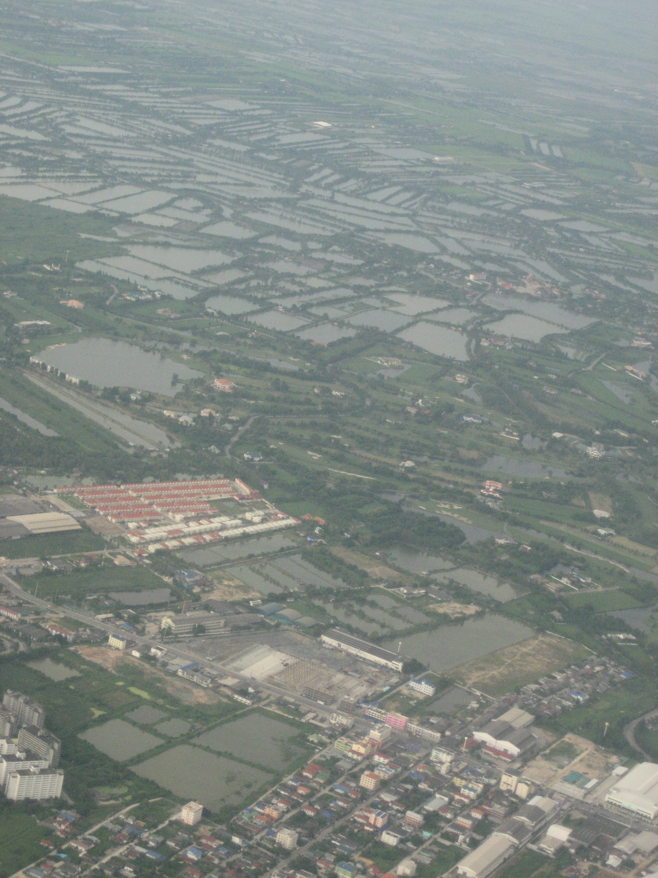 Aerial view of rural Bangkok